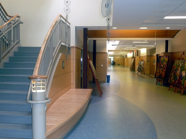 New MERHS Main Hallway